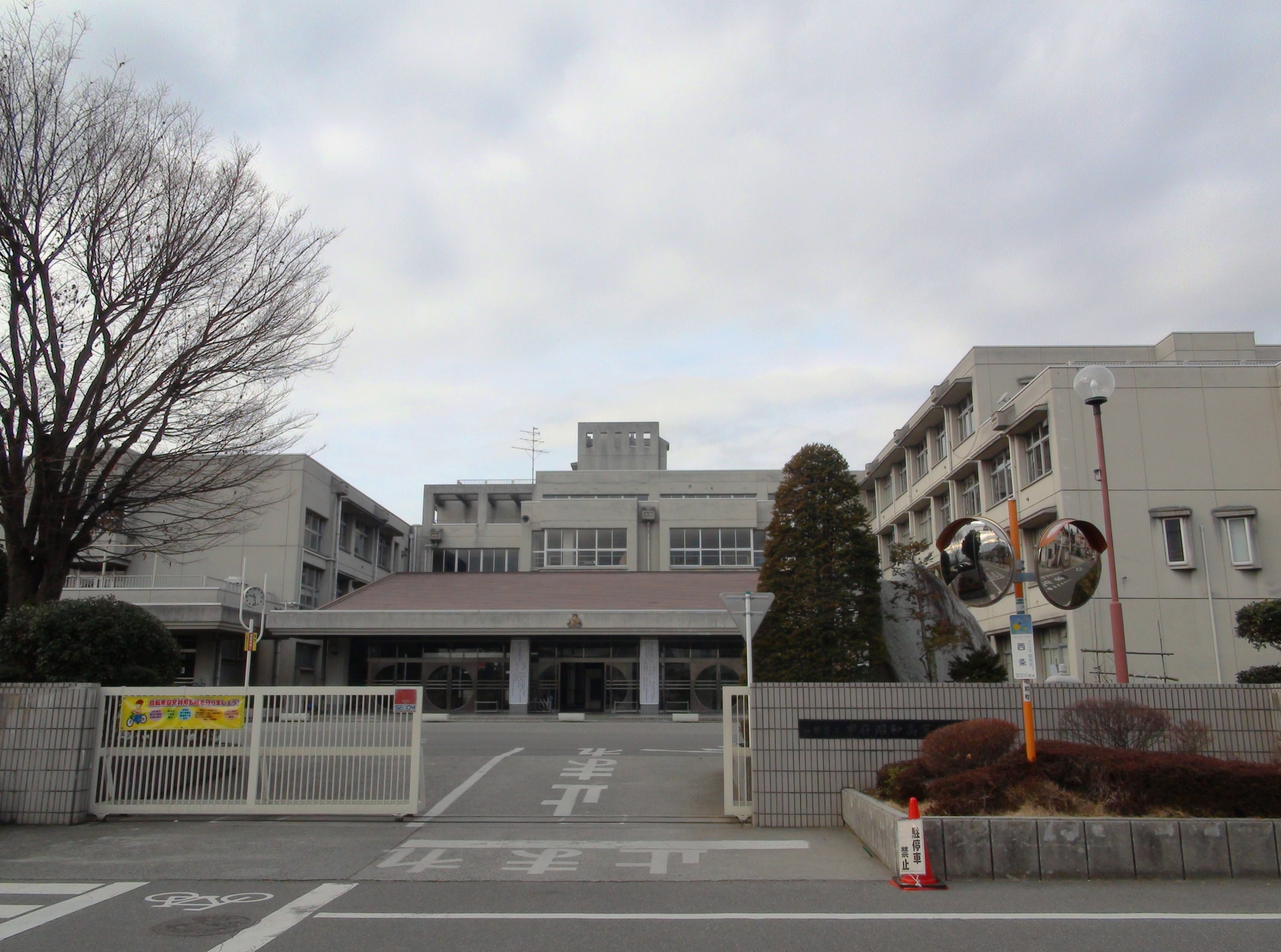 Yamanashi prefectural KofuShowa High School